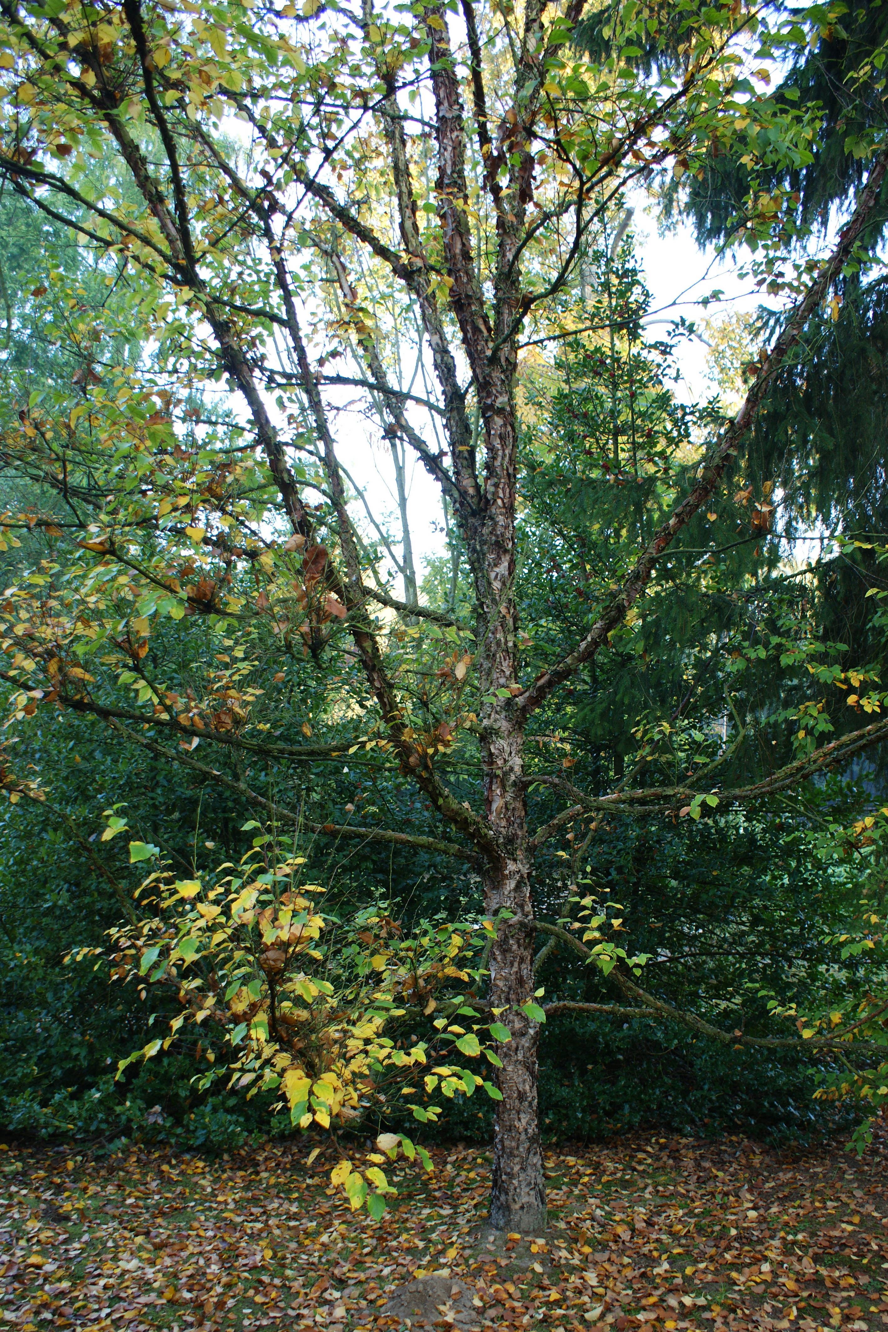 Betula davurica in Arboretum in Glinna (NW Poland)